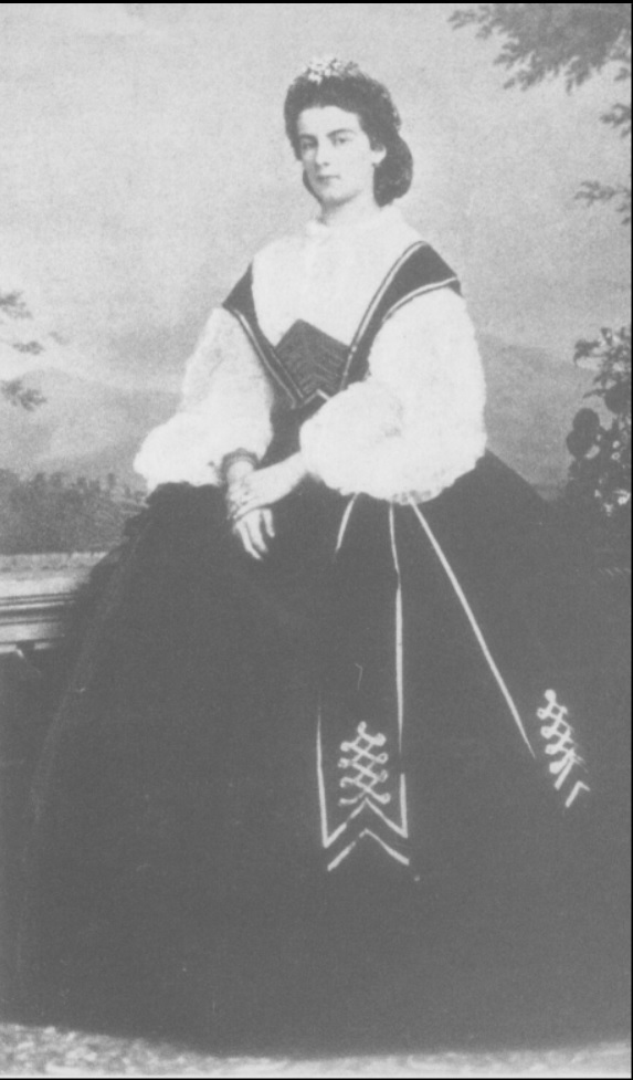 Marie Sophie Princess in Bavaria (1841–1925), last Queen of the Kingdom of the Two Sicilies, Sister of Empress Elisabeth of Austria-Hungary